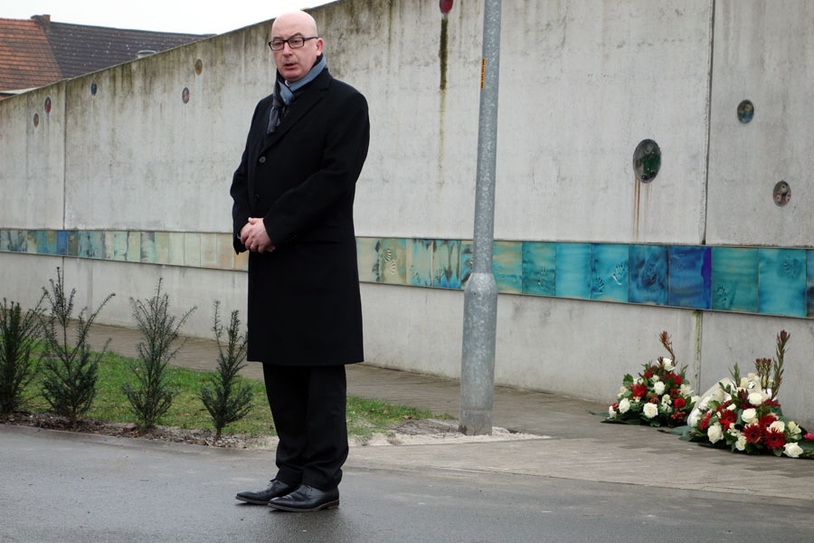 5 year memorial Dendermonde nursery attack on 23 January 2009